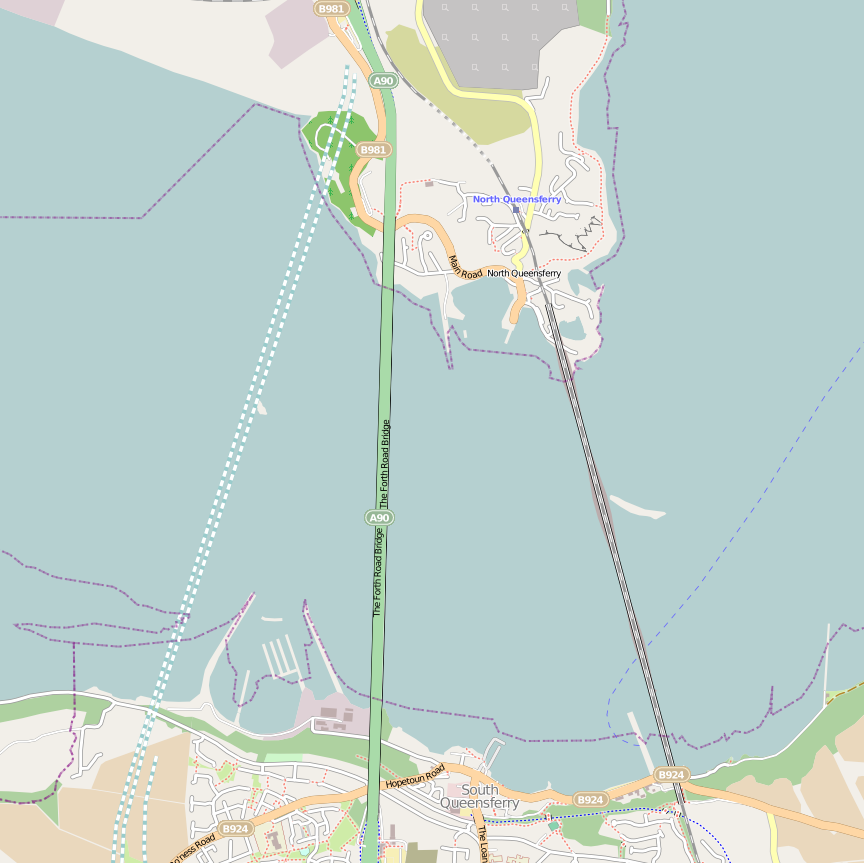 Extract from Open Street map, showing the location of the Forth Replacement Crossing in relation to the Forth Road Bridge and the Forth Bridge. This map may be incomplete, and may contain errors. Don't rely solely on it for navigation.